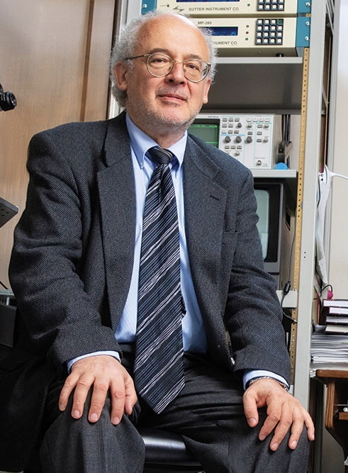 Photo